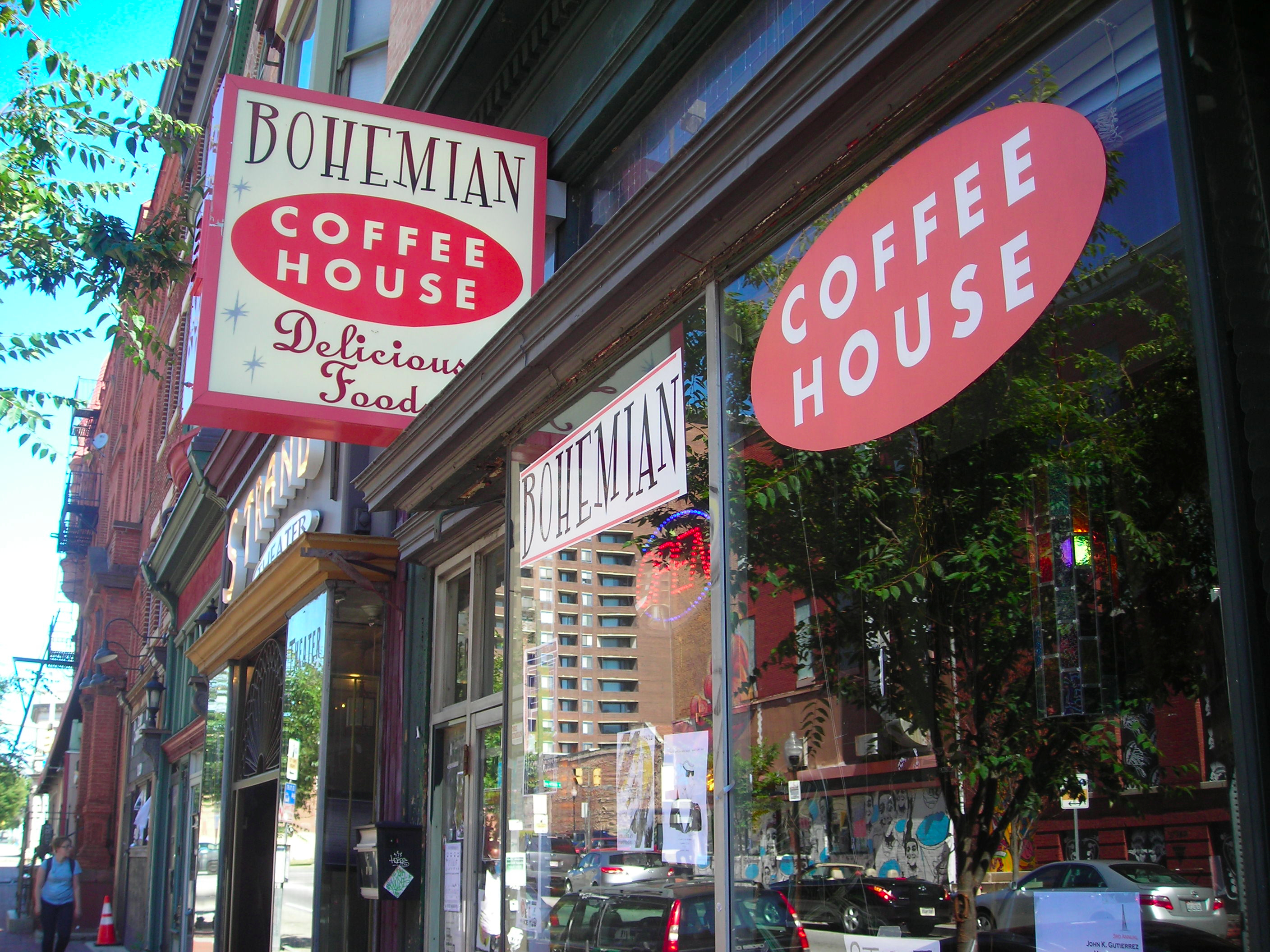 Bohemian Coffee Shop reflecting N. Charles St. in Baltimore.